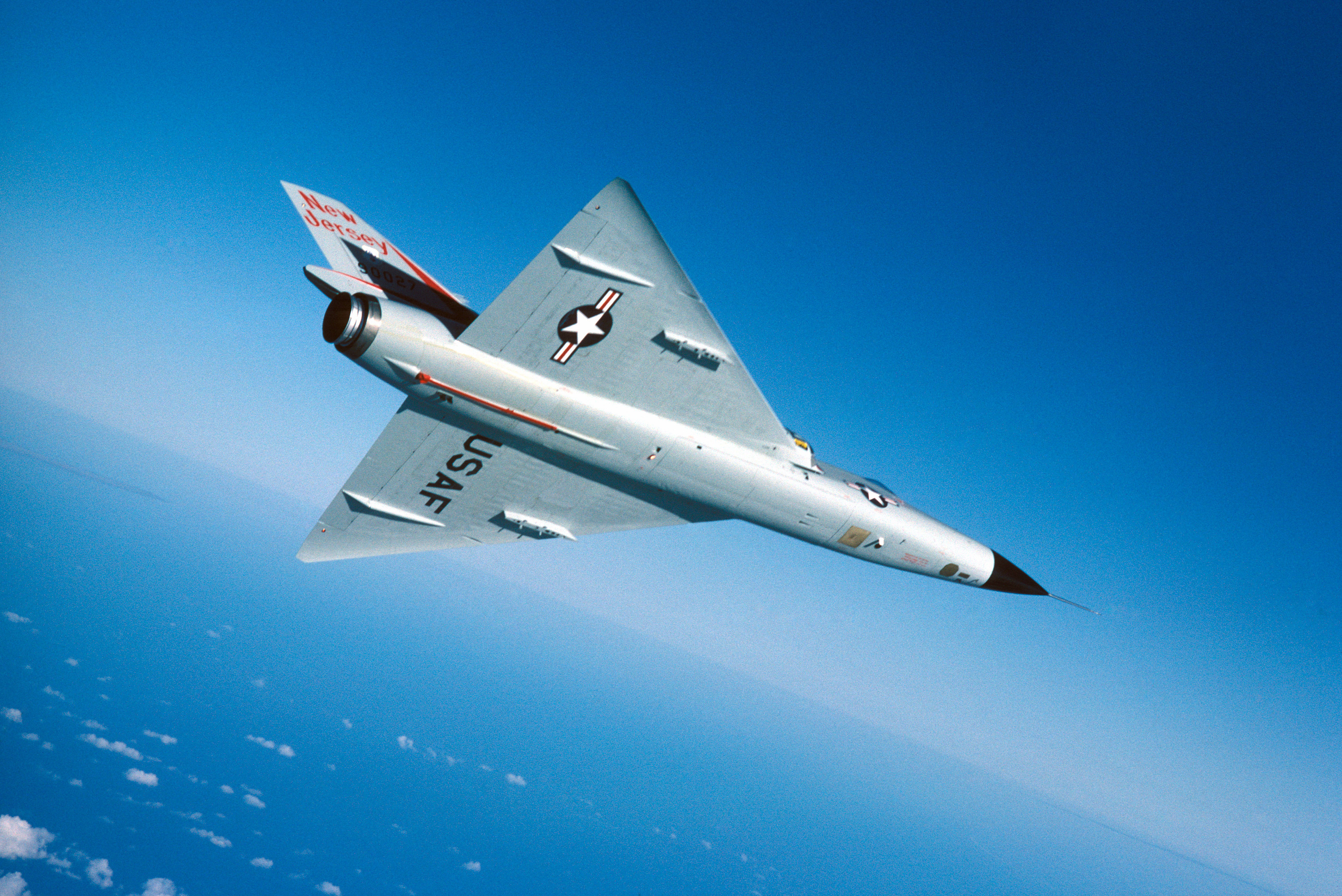 A U.S. Air Force Convair F-106A Delta Dart aircraft from the 177th Fighter Interceptor Group, New Jersey Air National Guard, during the air-to-air weapons meet "William Tell '84".